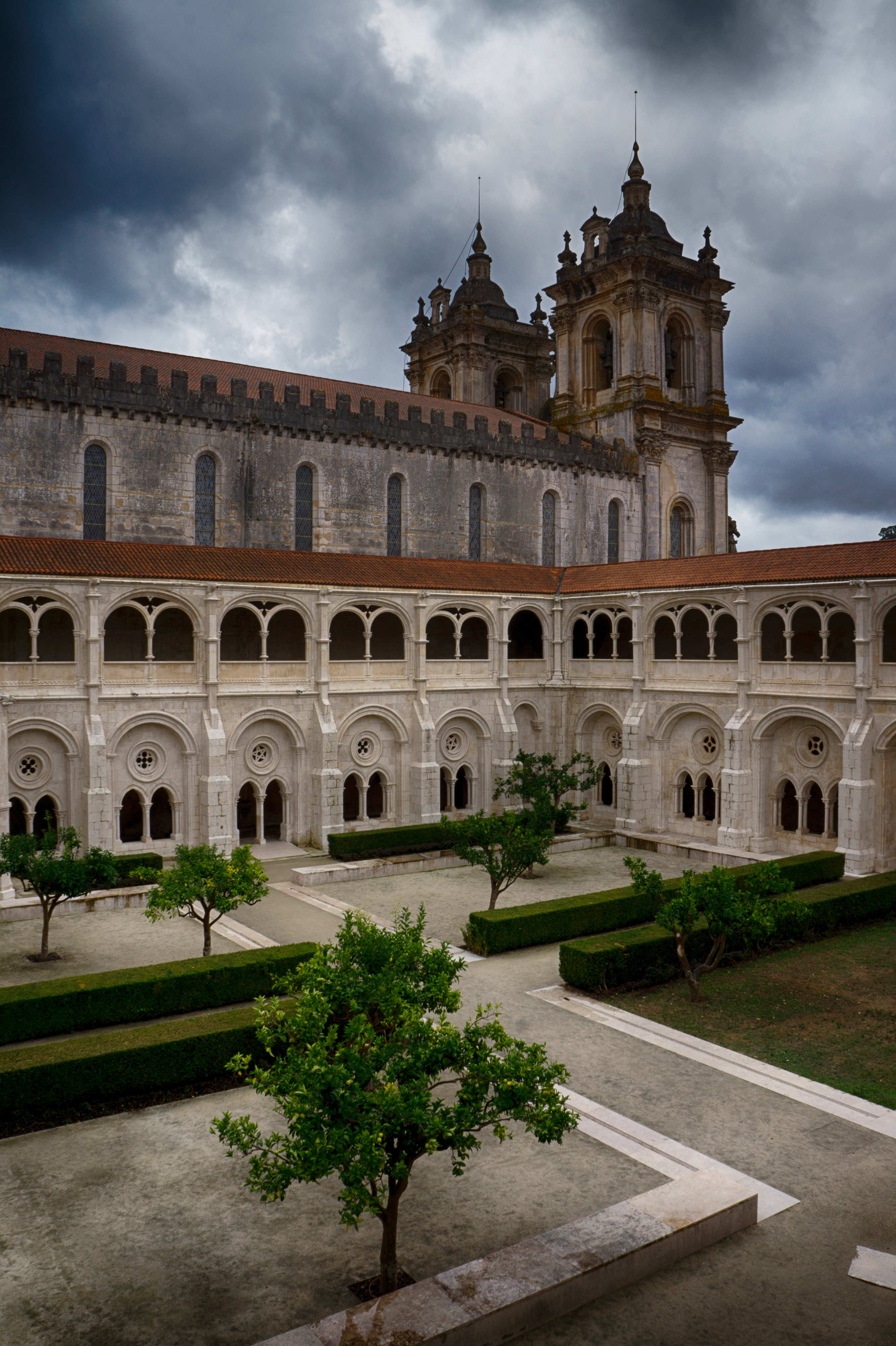 The Alcobaça Monastery is an impressive Medieval Roman Catholic monastery located in the town of Alcobaça. The church and monastery were one of the first Gothic buildings and one of the most important medieval monasteries in Portugal. Due to its artistic-historical importance and monumental beauty, the Alcobaça Monastery warranted its inscription in the list of UNESCO World Heritage Sites in 1989. More about it here: bit.ly/1U6DEYv